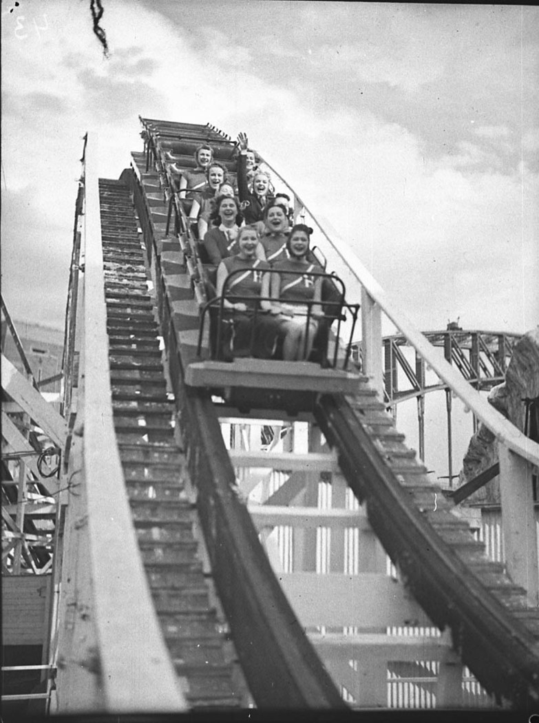 "Hollywood Hotel" girls at Luna Park (taken for Fuller's Theatres Ltd)